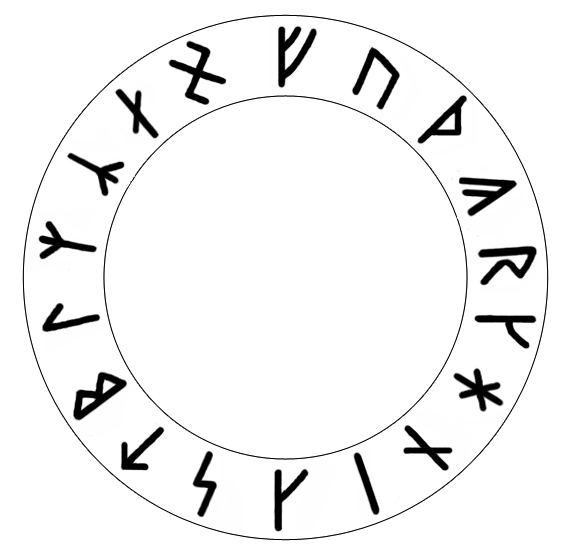 Guido v. List's armanenrunes in a circle. Picture made by the uploader.